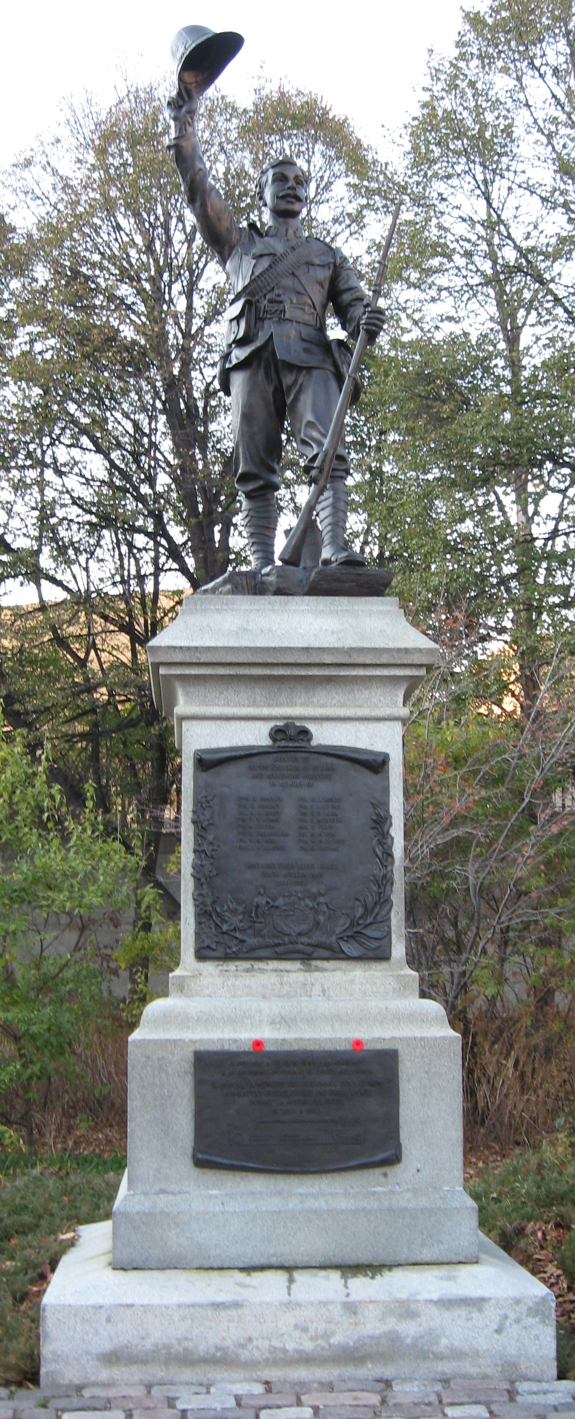 A monument to the veterans of the Boer War (with Remembrance Day poppies).